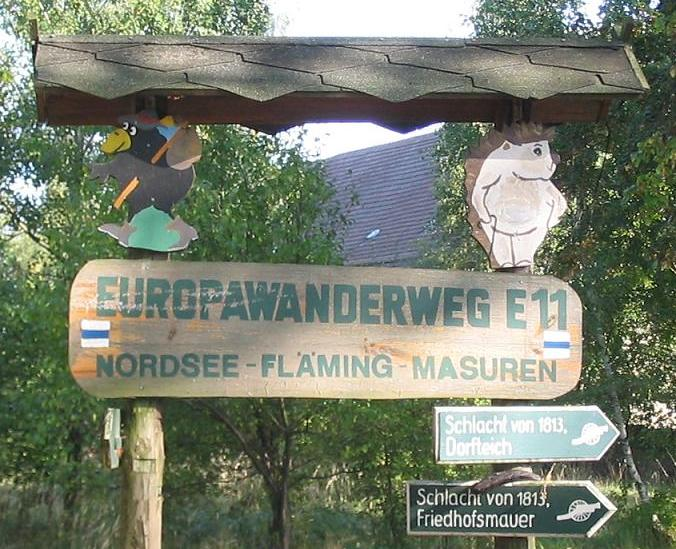 Signs European long-distance path E11, battle (1813) at cemetery-wall in Hagelberg. The village Hagelberg is a part of the town Belzig in the district Potsdam Mittelmark, state Brandenburg, Germany. The village appertains to the nature park Naturpark Hoher Fläming. The eponymous Hagelberg (hill) is with a height of total 200 meters the highest elevation in the Fläming. There are two monuments commemorating to the prussian victory in the „Battle from the Hagelberg“ in 1813 against Napoleon.